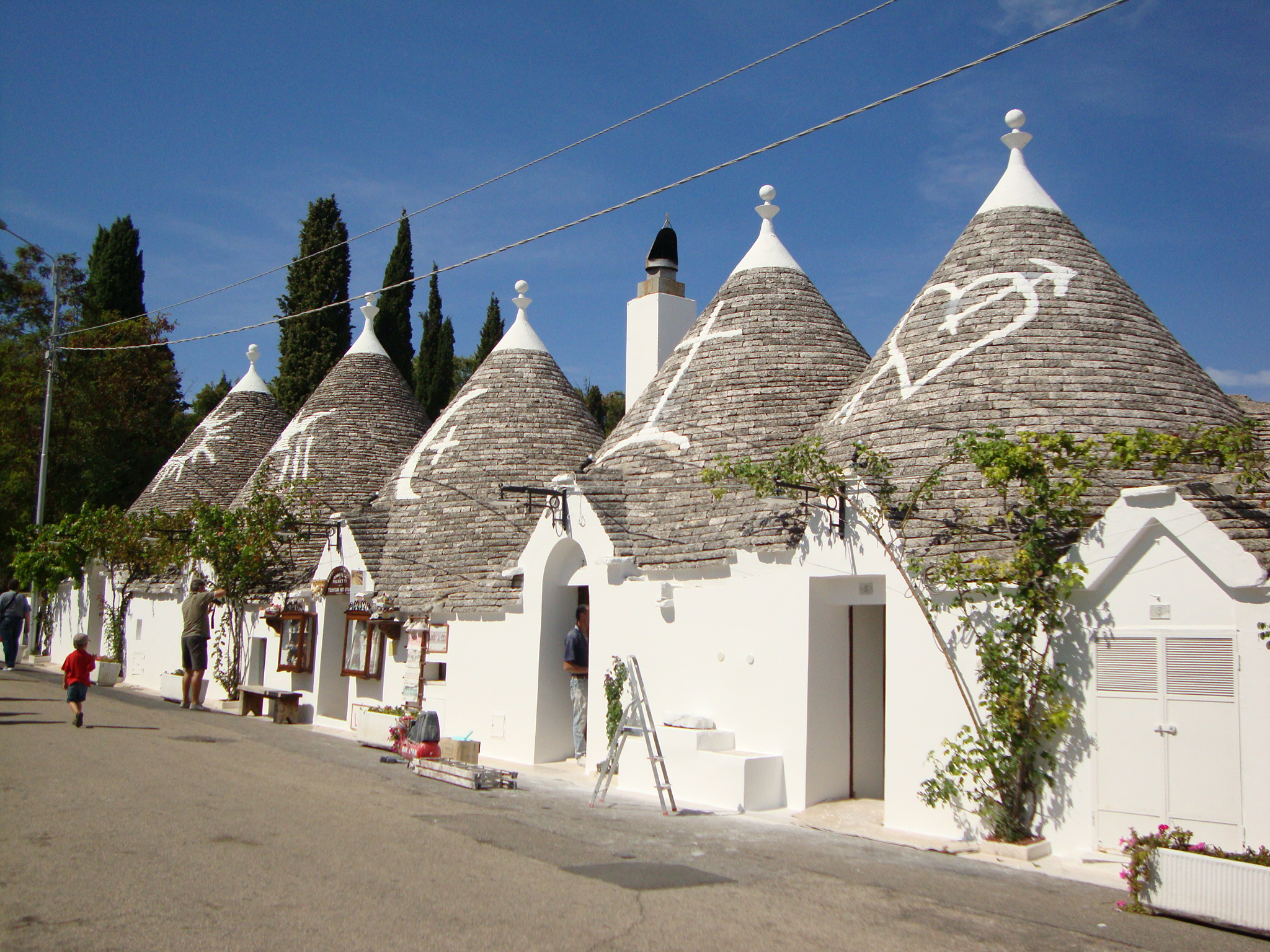 Trulli houses in Alberobello, Apulia